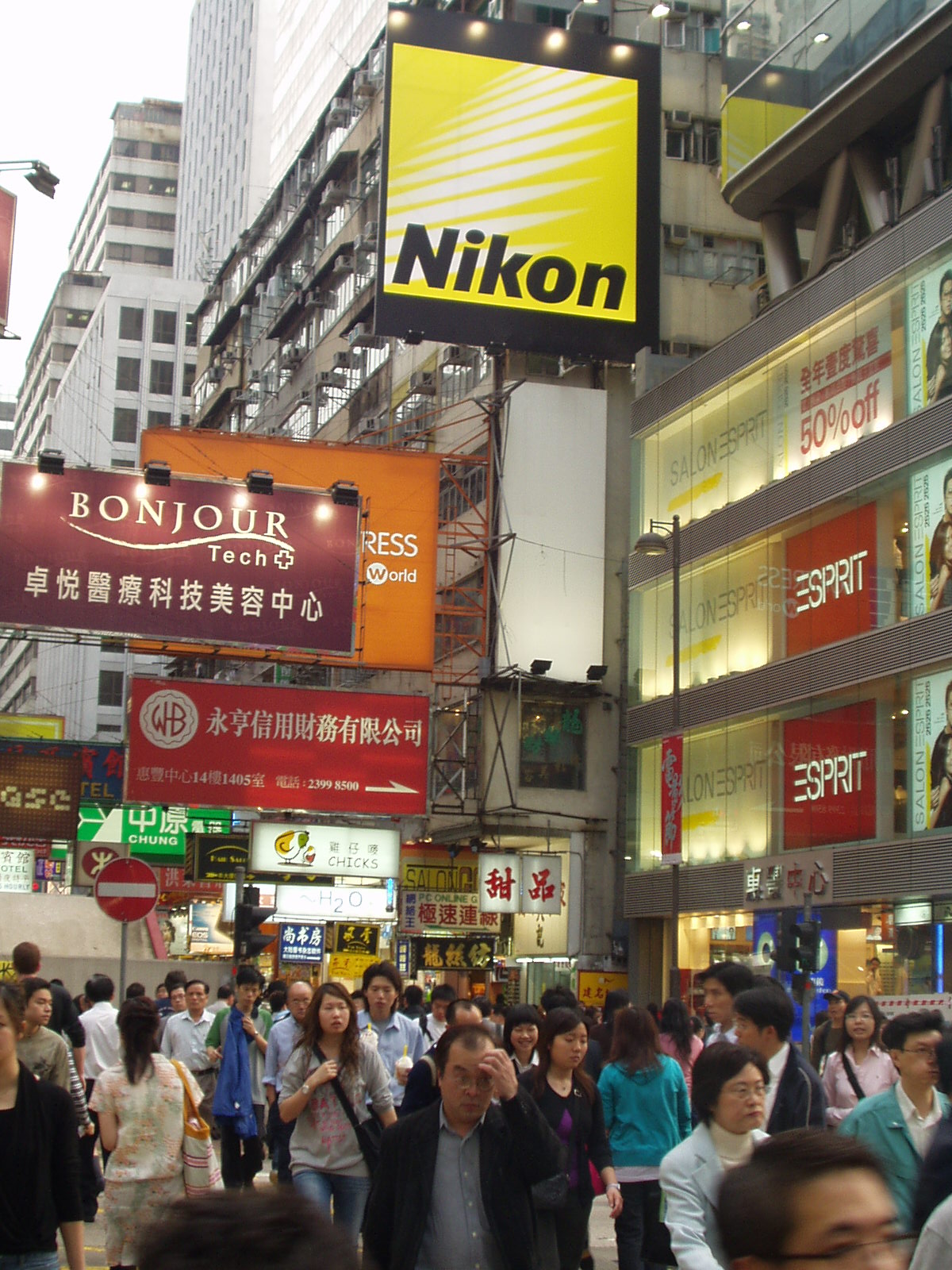 Sai Yeung Choi Street South, Mong Kok, Hong Kong (Taken by Tsui Sing Yan Eric)